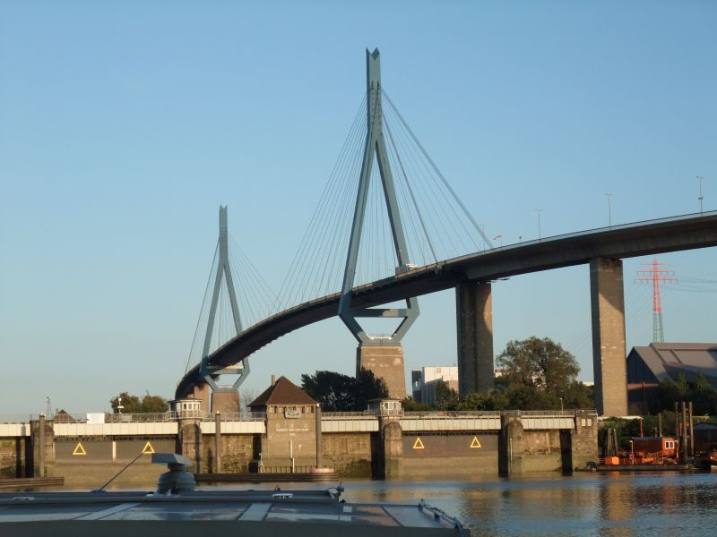 Köhlbrandbrücke, Hamburg